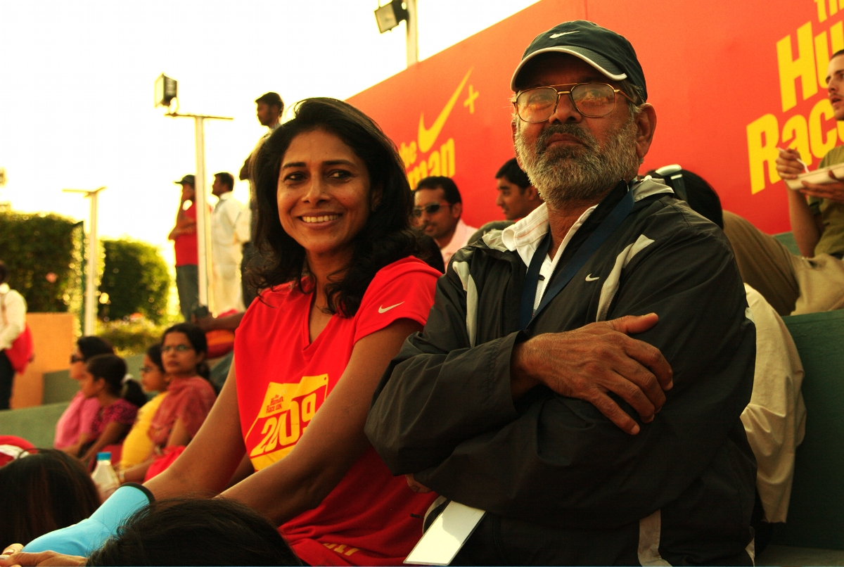 The folks who kick started the runner in me. These two people who coach at the Nike Run Club helped and guided me in getting past that initial hiccups